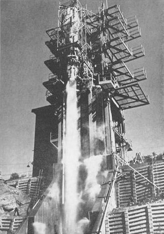 Original caption: Fiery gases stream from Redstone rocket engine as it delivers more than 75,000 pounds of thrust during static test at Rocketdyne's Propulsion Field Laboratory at Santa Susanna Field Laboratory.